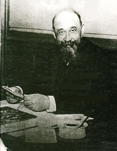 Nicolae Iorga smiling